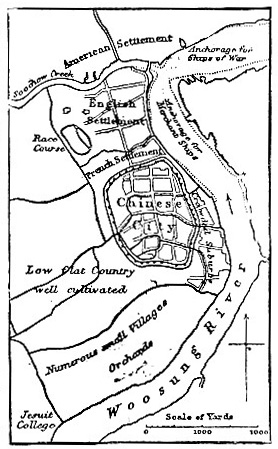 Map of shanghai around 1888